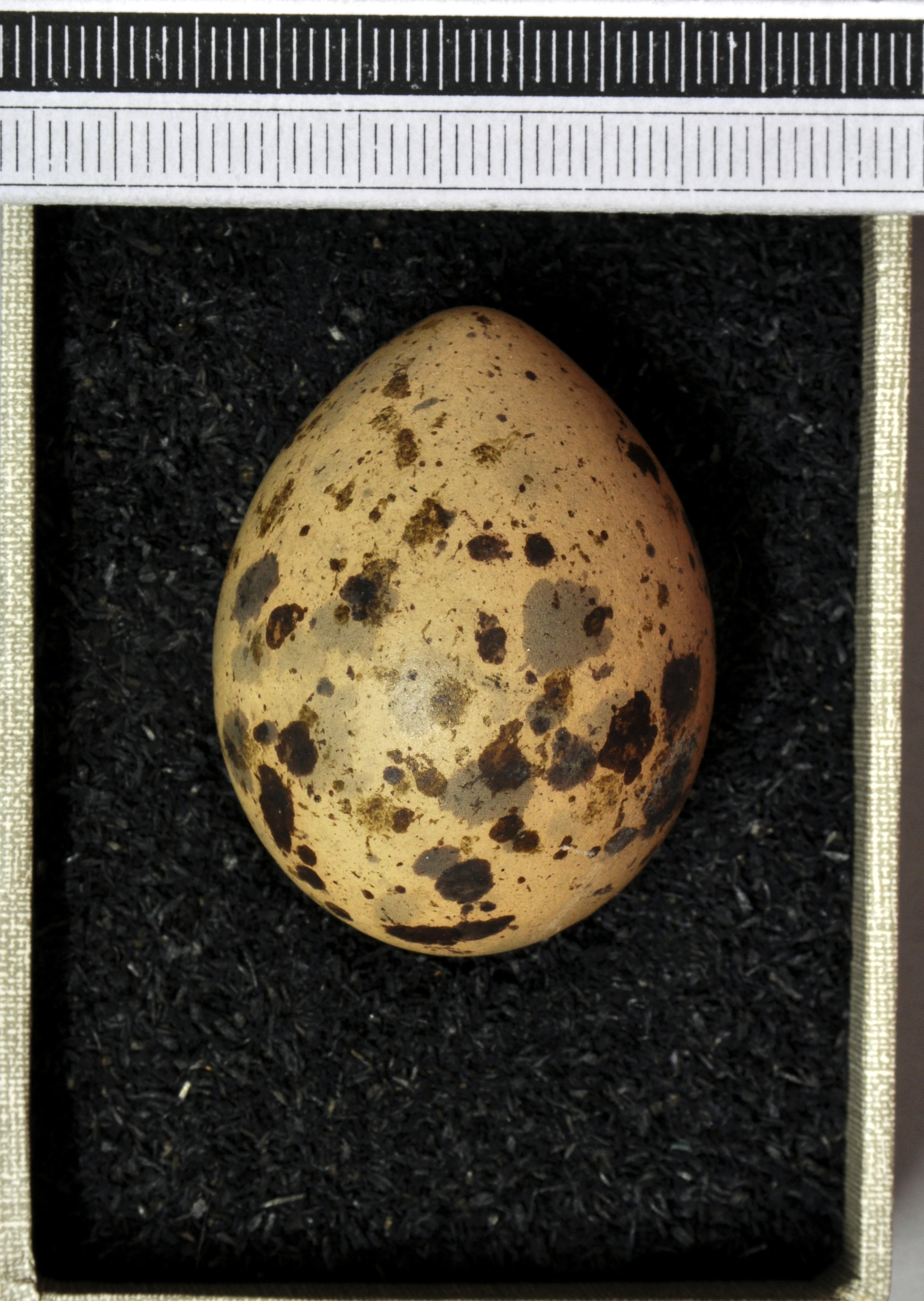 Little gull Larus minutus , egg, Coll. Museum Wiesbaden